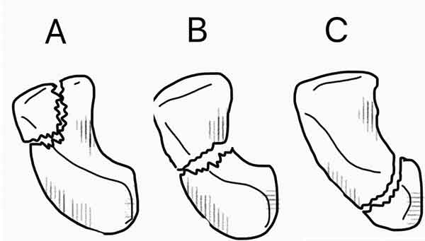 There are 3 types of scaphoid fractures. Distal tubercle fractures (A, 20%), waist fractures (B, 60%), and proximal pole fractures (C, 20%). Adapted from [1]}